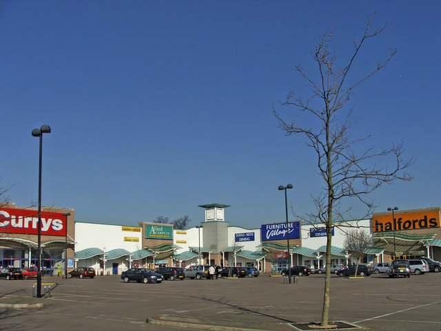 Stores at Friern Bridge Trading Estate, N11 Stores at the Friern Bridge Trading Estate taken from the car park.